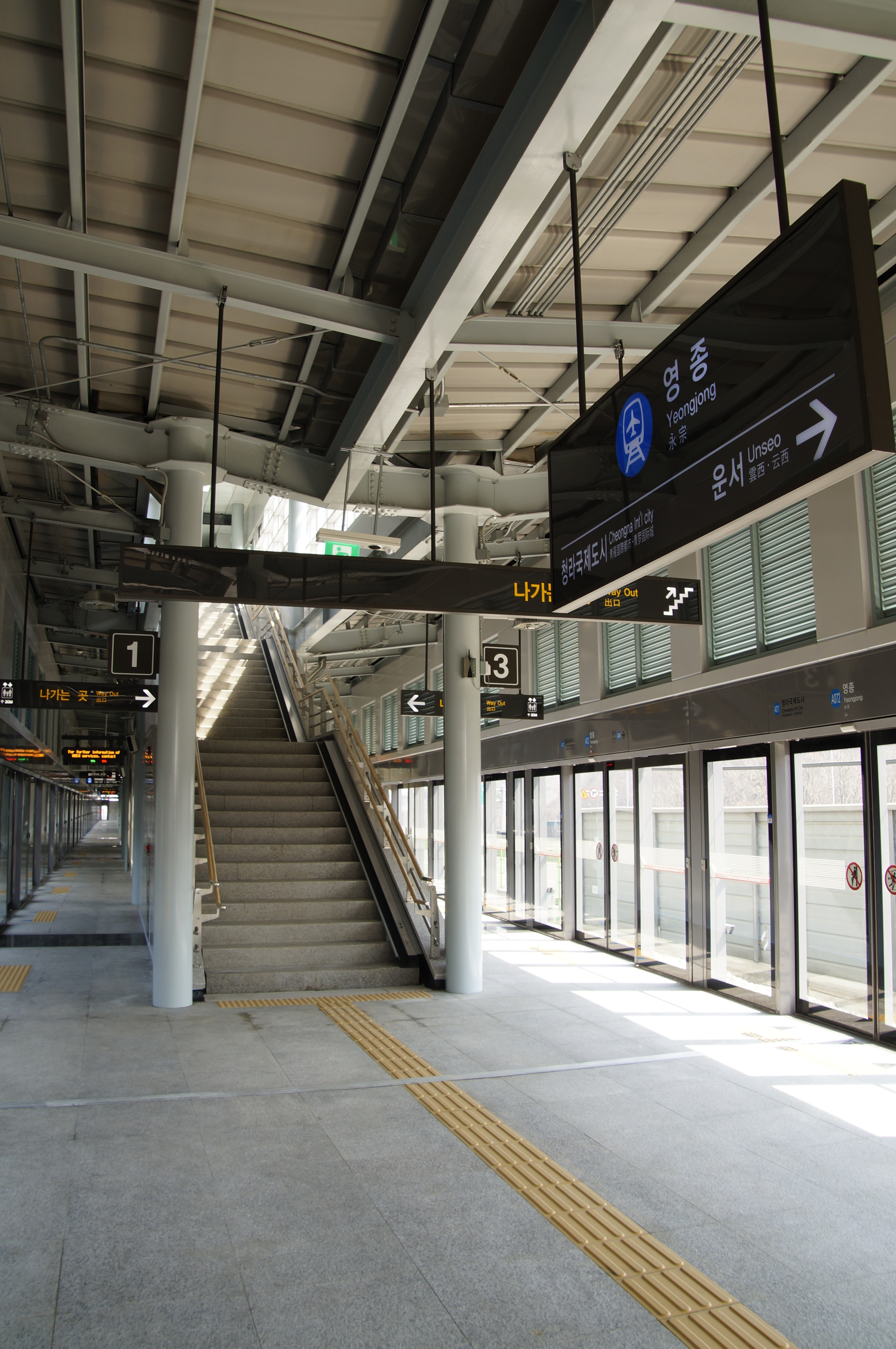 A view of Yeongjong Station on the Airport Railroad.